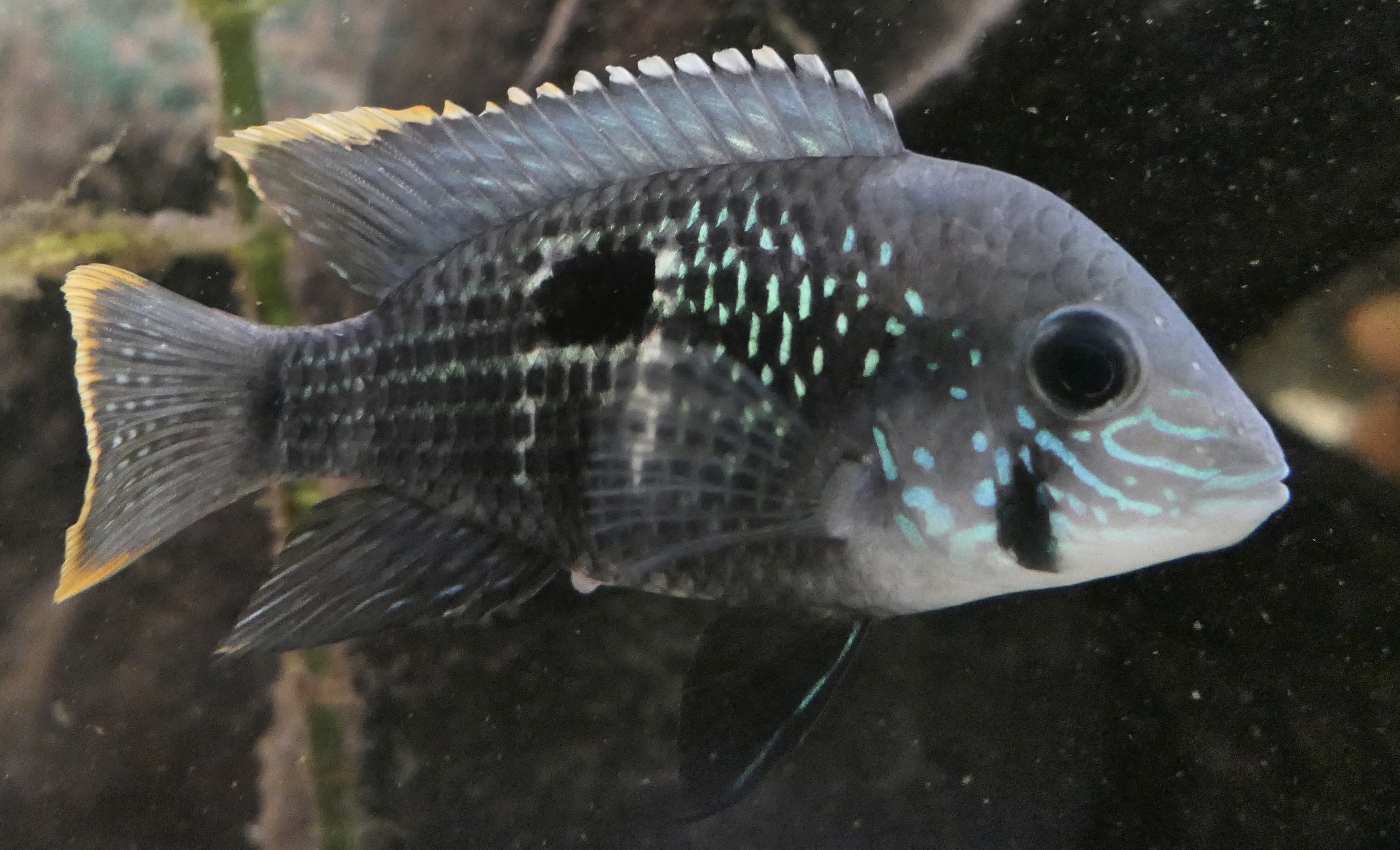 A female green terror in breeding coloration, with visible genital papilla.